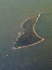 Aerial photograph of East Sister Island in Lake Erie. Ontario Canada